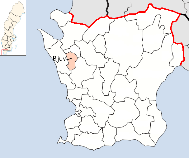 Bjuv Municipality in Scania, Sweden Designed by me. Mere outlines are a PD source from